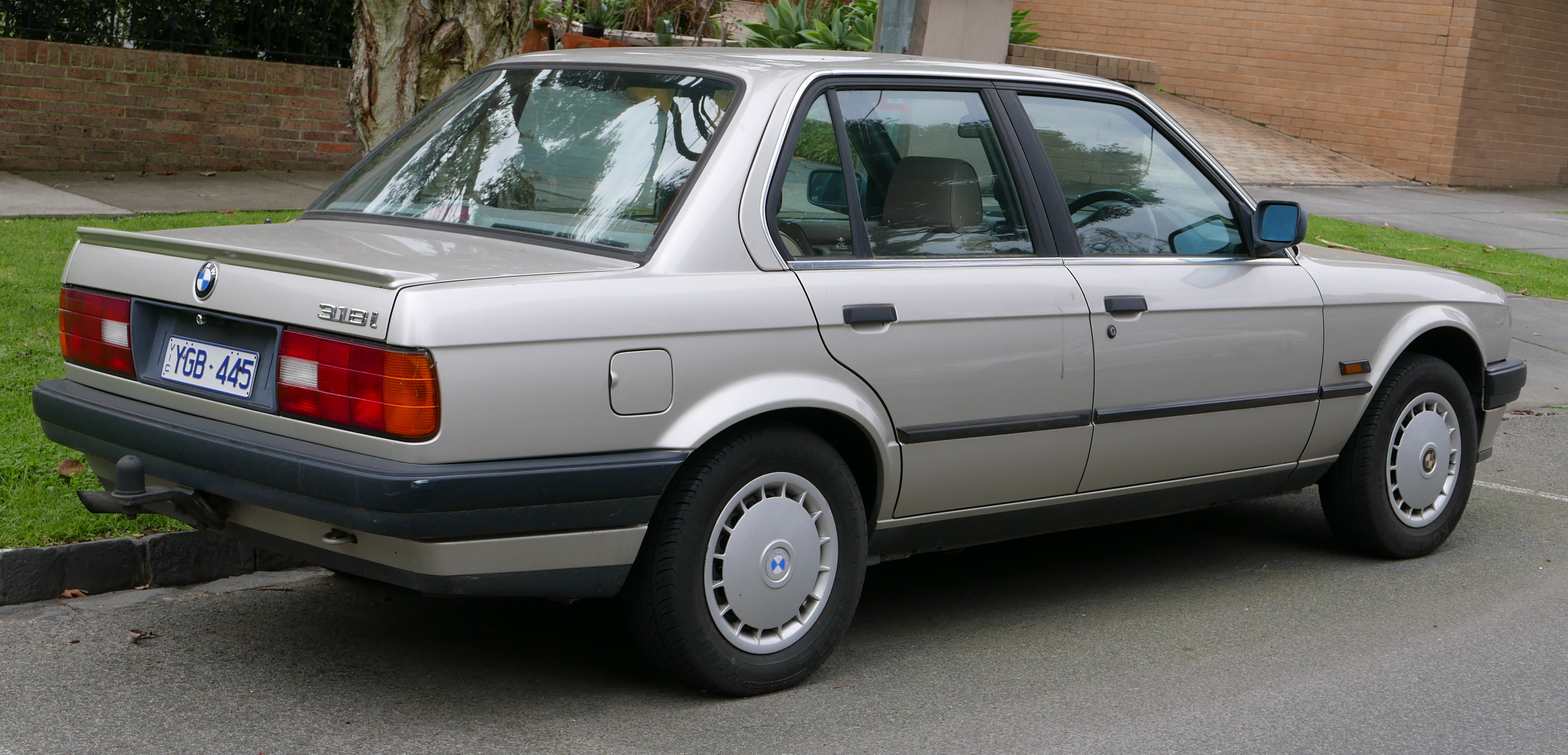 1990 BMW 318i (E30) 4-door sedan. Photographed in Kew, Victoria, Australia. Vehicle registration enquiry results Jurisdiction Victoria Registration YGB445 Chassis code WBAAJ52080AD90660 Engine code 00707103 Compliance date 1990-11 Year of manufacture 1991 (not a typo)